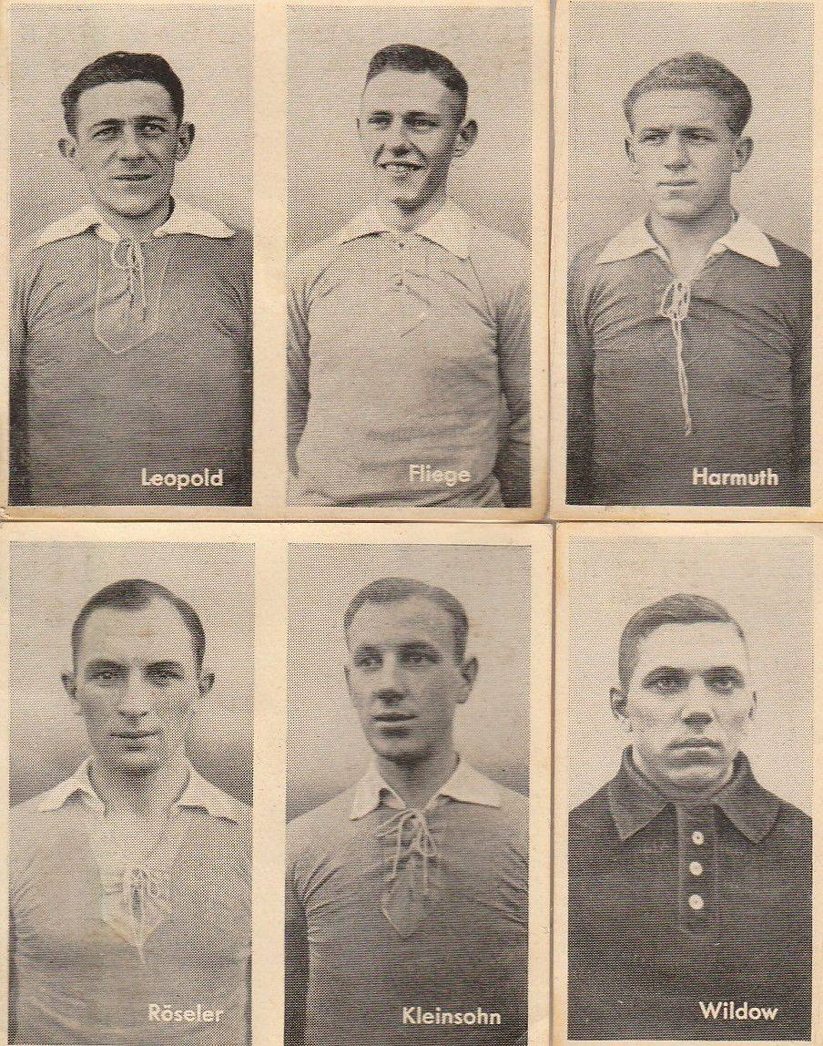 Player of Viktoria Forst in season 1931/32